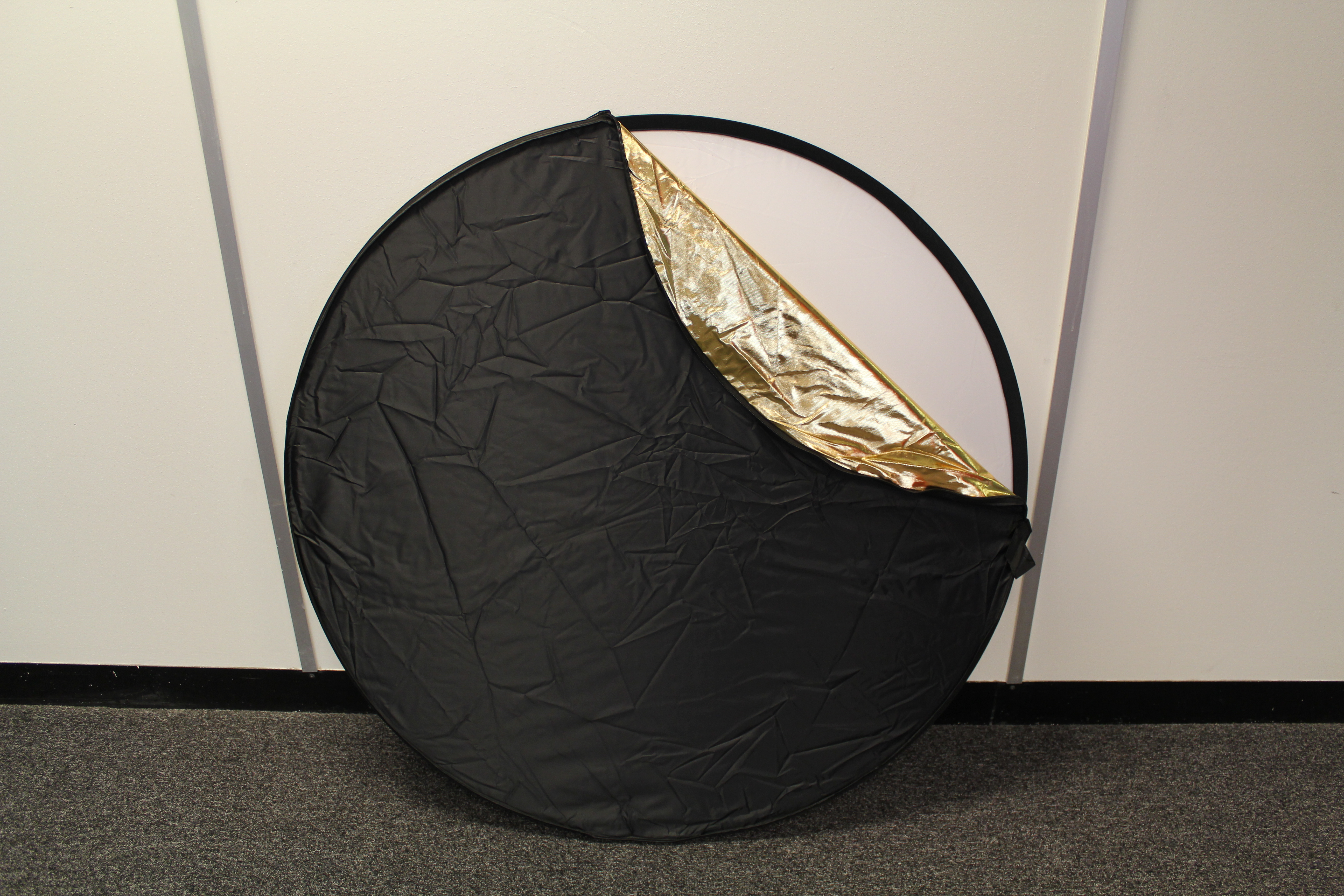 Ex-Pro 5-in-1 42" Photographic Light Reflector.